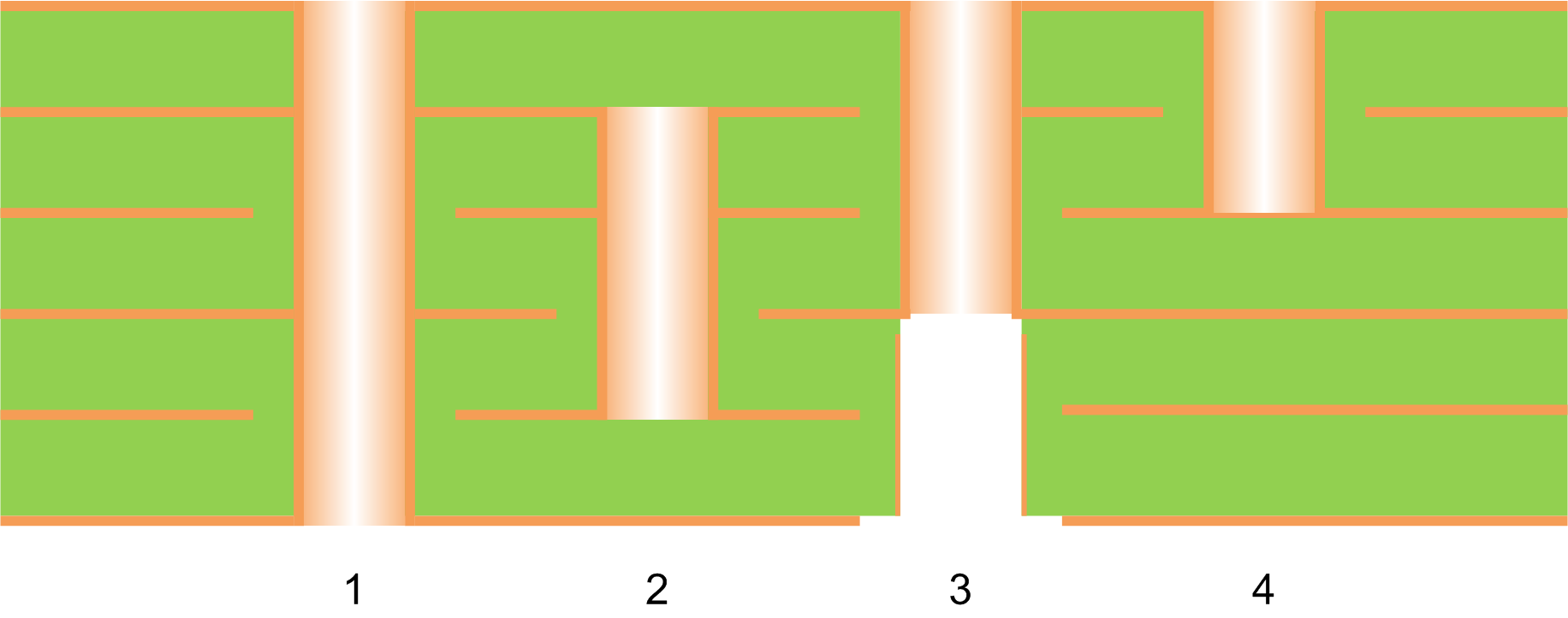 Different types of PTH